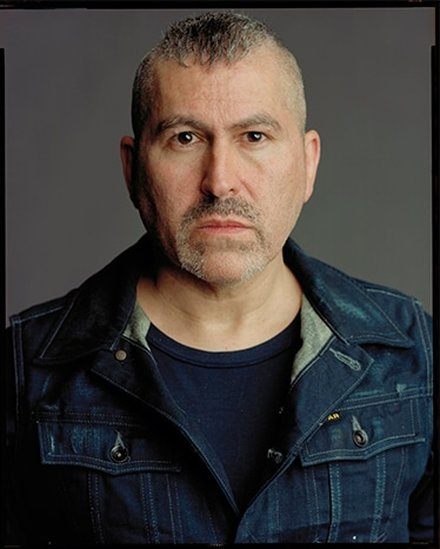 Portrait by Timothy Greenfield-Sanders